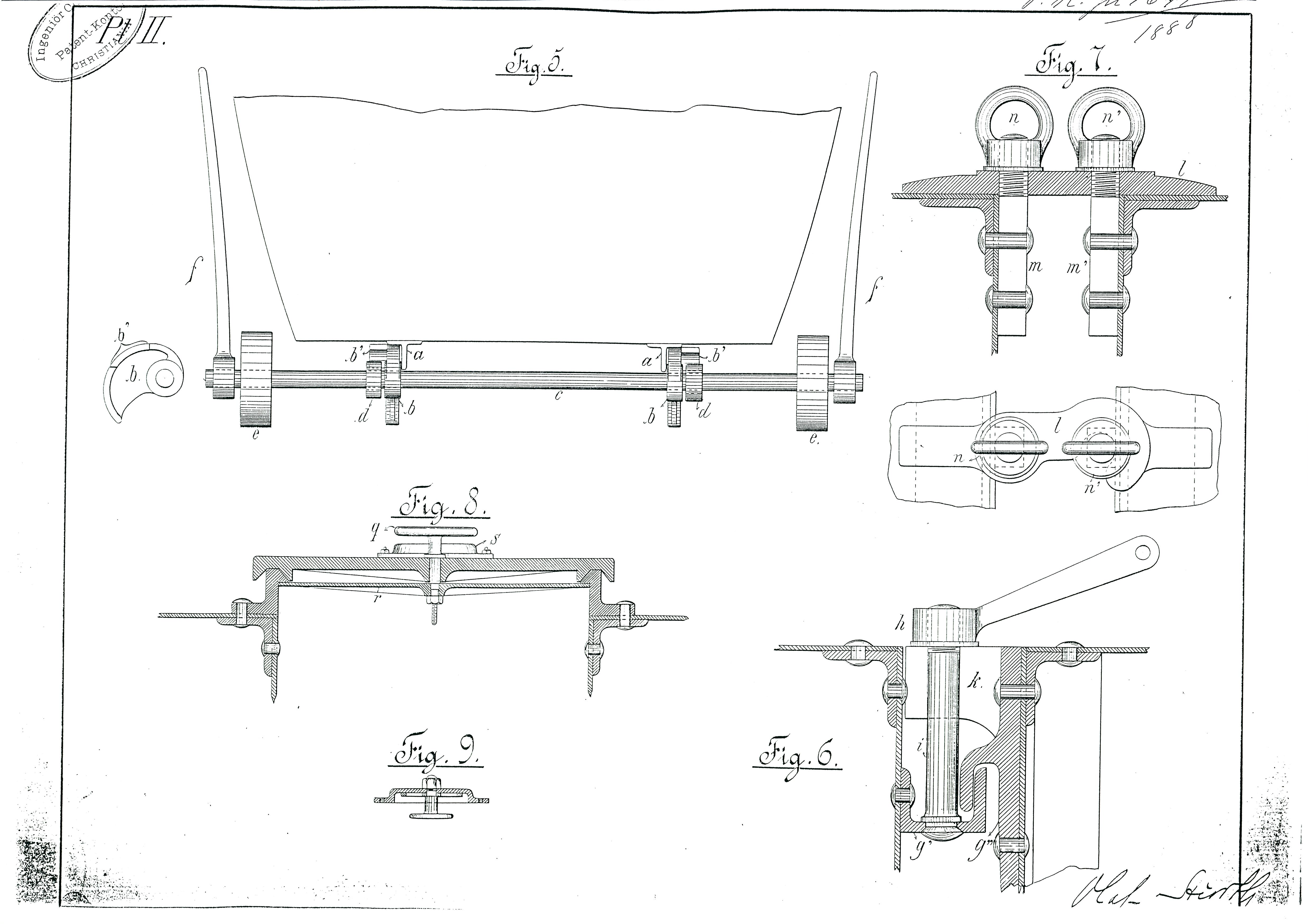 Photocopy nr 2 of the original Patent drawings, dated May 1888, for Storm King. The worlds very first capsuled lifeboat